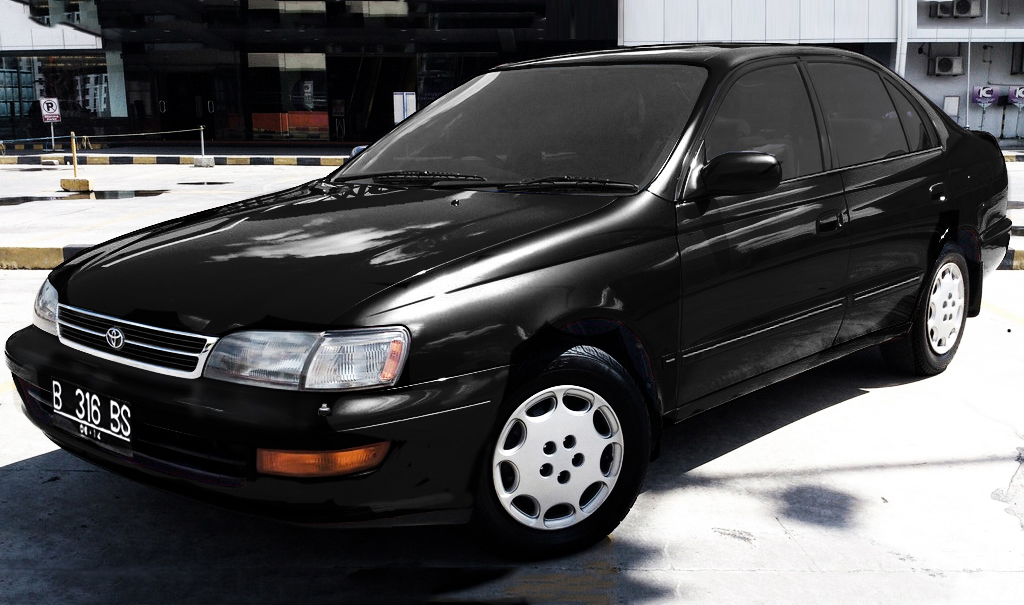 Toyota Corona Absolute 2.0 EXsaloon G ST191